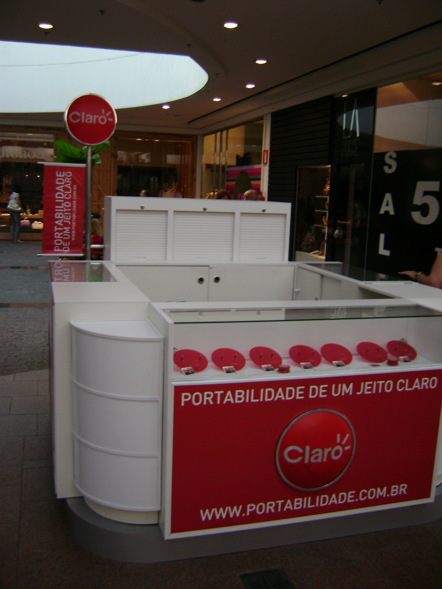 Quisque da Claro, no shopping Pátio Savassi, em Belo Horizonte.